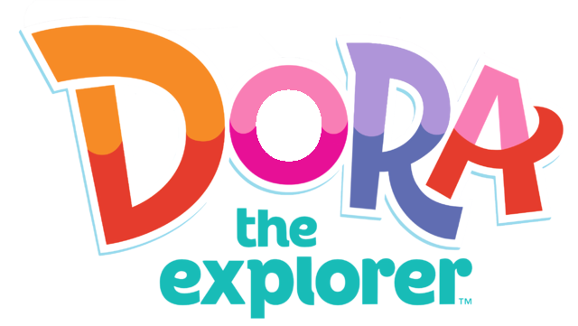 Dora the Explorer logotype